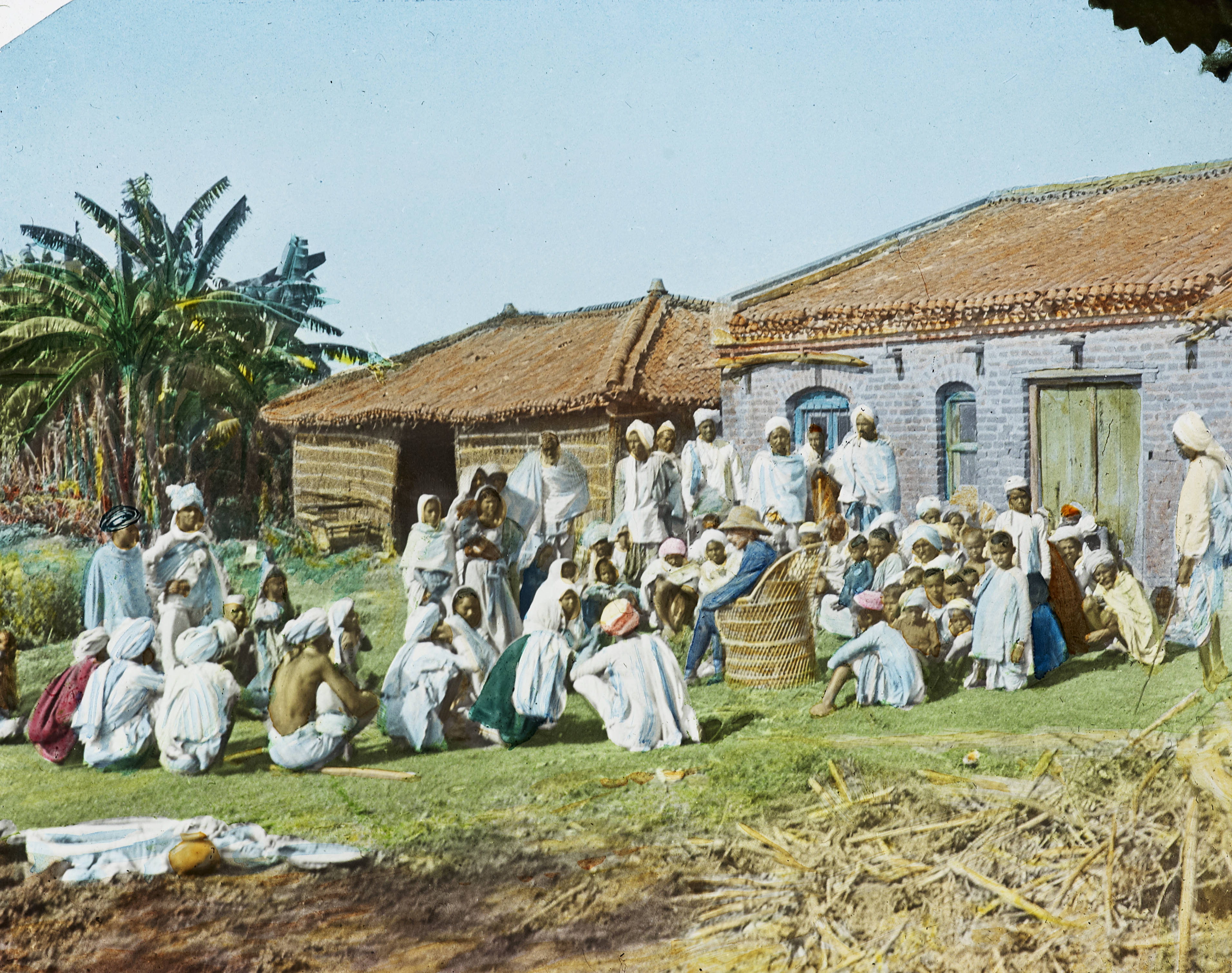 Chanpatia: Dispensary, India, ca. 1906 Tinted lantern slide showing a male European missionary, Mr Wynd, who joined the mission of Regions Beyond Missionary Union in Bihar in 1901. My Wynd sits on a wicker chair in front of two buildings (one brick, one thatched), and is surrounded by a group of Indian men, women and children in traditional dress. Chanpatia was opened up as a mission station by Regions Beyond Missionary Union in 1905. The original caption to the slide reads: "Chanpatia: Dispensary - Mr Wynd has a Quiet Talk with the patients." This slide comes from a collection created by missionaries from Regions Beyond Missionary Union, an interdenominational Protestant evangelical mission working in northeast India (Bihar and Orissa) and Nepal. Photographer: Unknown Filename: IMP-CSCNWW33-OS14-52.tif Coverage date: 1900/1910 Subject (unesco): Missionary work; Medical treatment; Medical centres Part of collection: International Mission Photography Archive, ca.1860-ca.1960 Part of subcollection: Photographs from the Centre for the Study of World Christianity, University of Edinburgh, U.K., ca.1900-ca.1940s Repository name: Centre for the Study of World Christianity Archival file: Volume3/IMP-CSCNWW33-OS14-52.tif Repository address: The University of Edinburgh School of Divinity, New College, Mound Place, Edinburgh EH1 2LX, United Kingdom Geographic subject (country): India Format (aacr2): lantern slides 8.2 x 8.2cm Geographic subject (continent): Asia Rights: Contact the repository for details. Part of series: Regions Beyond Missionary Union. India captioned lantern slides (CSCNWW33/OS14) Repository Date created: 1900/1910 Publisher (of the digital version): University of Southern California. Libraries Subject (aat genre): group portraits Format (aat): lantern slides; photographs Geographic subject (state): Bihar Access conditions: Geographic subject: medical facilities File: CSCNWW33/OS14/52 Subject (lcsh): Dispensaries; Missionaries; Missions, medical